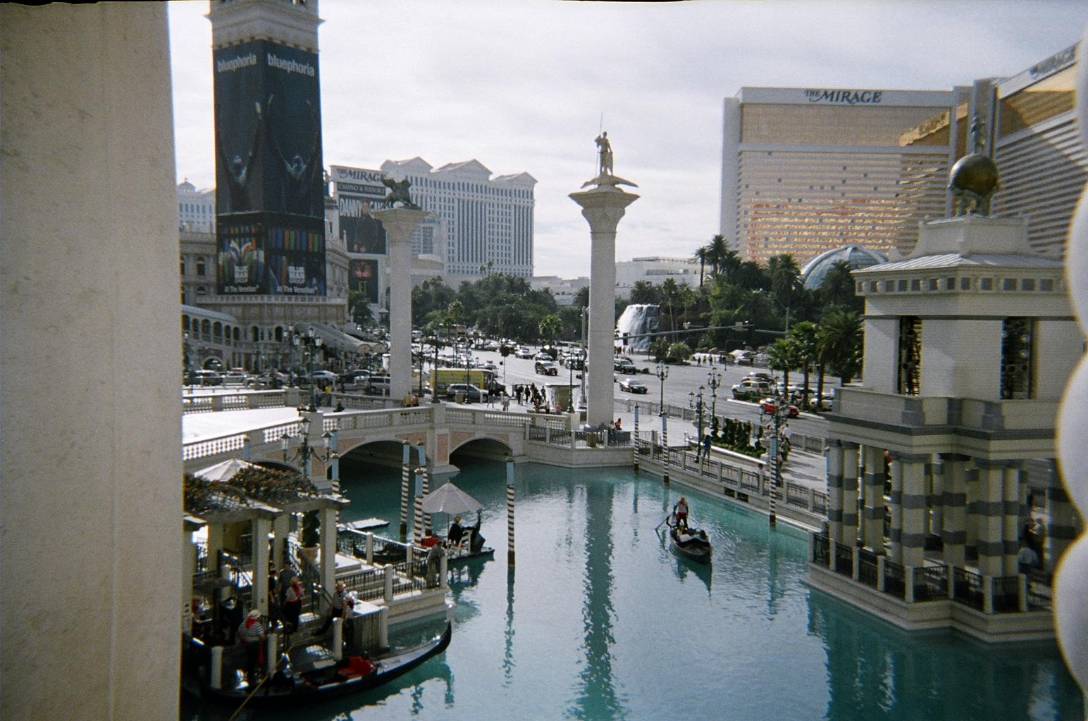 my photo dec 2005